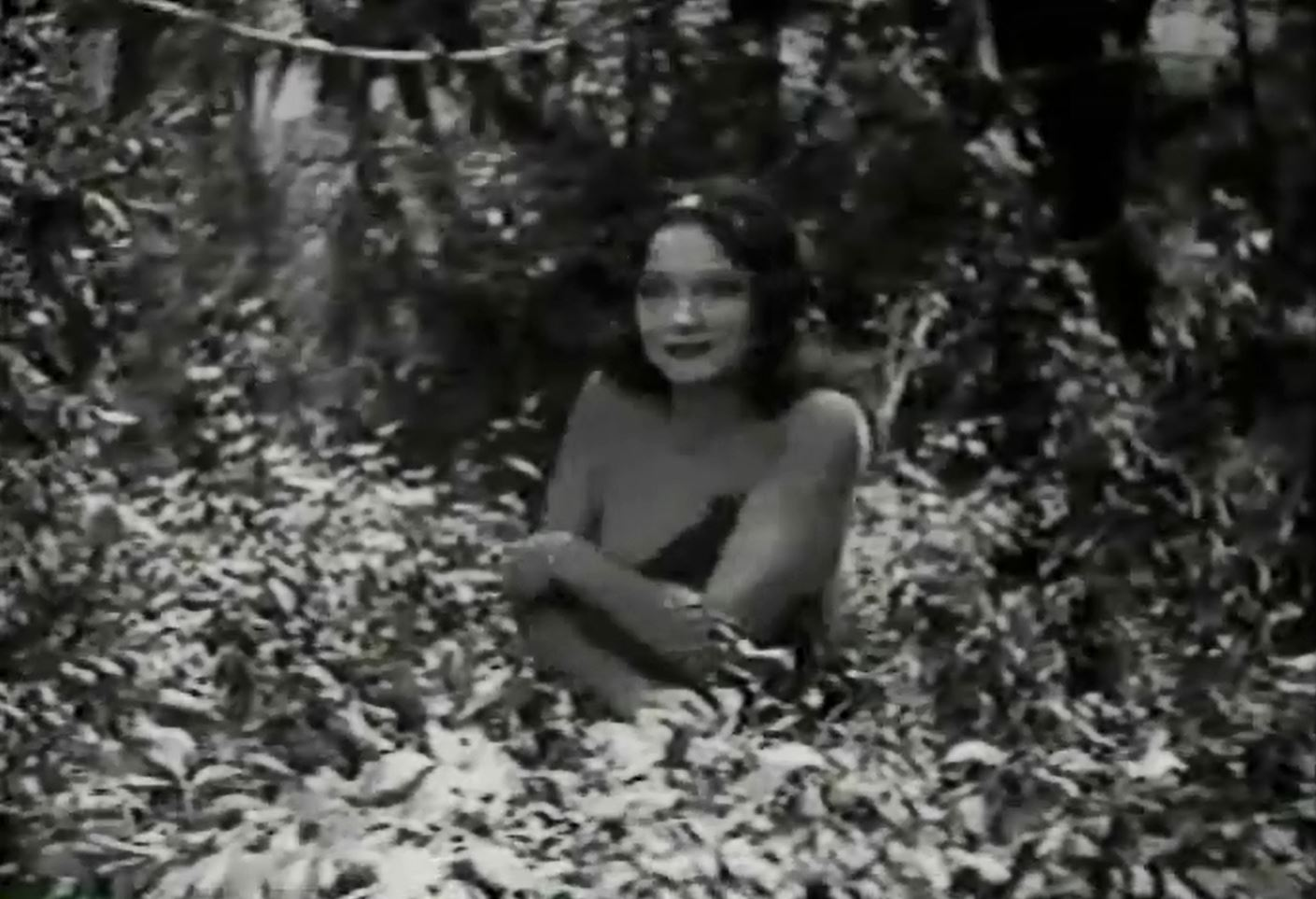 Low resolution screenshot of Natalie Kingston as Jane in the American film serial Tarzan the Tiger (1929). In chapter 8 Jane awakes and undresses for a topless morning swim.